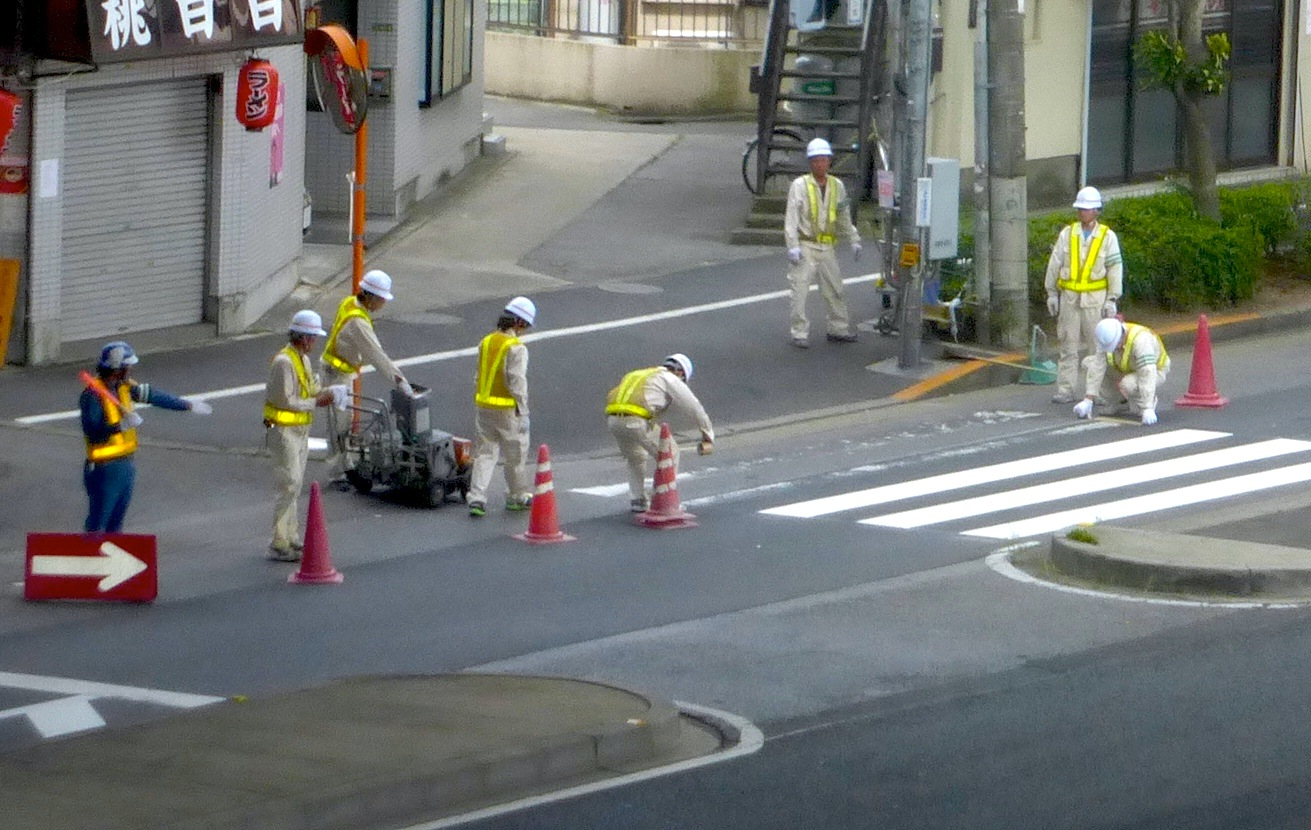 整備員は道に塗料を付ける (Maintenance workers painting the road)